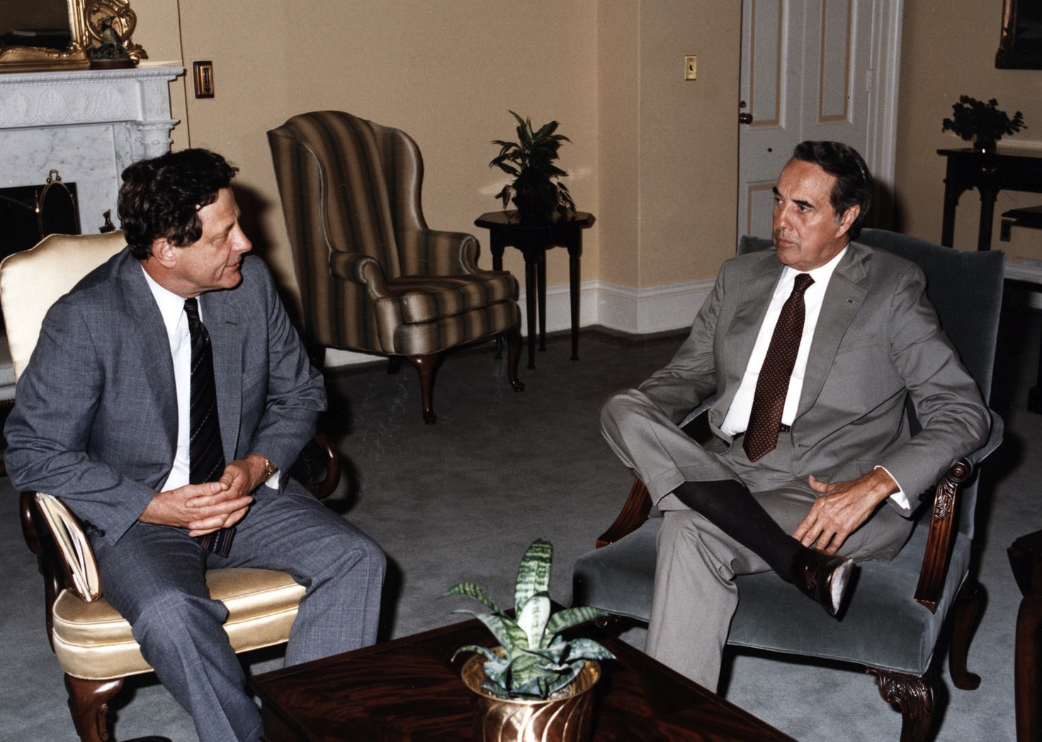 Former Senator Birch Bayh and Senator Bob Dole, authors of the Bayh-Dole Act, in Washington D.C. on July 22, 1985.